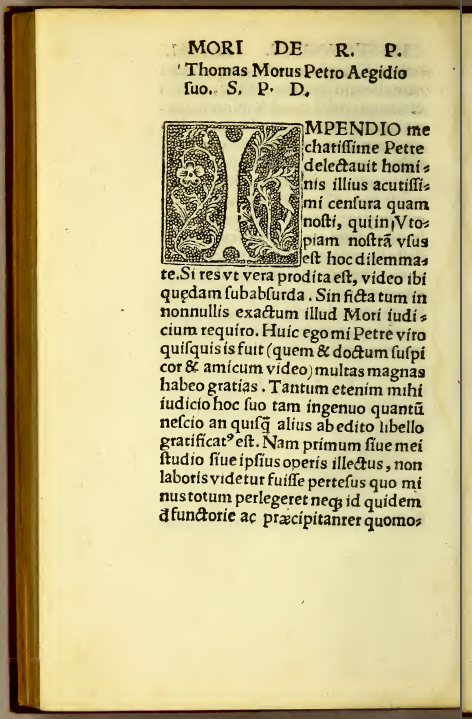 This is the first page of the second letter written by Thomas More to Pierre Gilles (also called "Impendio") , as it was printed in More's Utopia 1517 edition (Gilles de Gourmont, Paris)